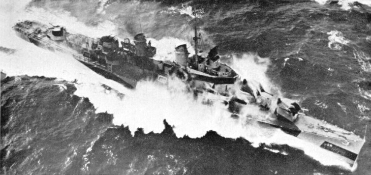 The U.S. Navy destroyer minelayer USS Tolman (DM-28) during the Second World War. She is painted in camouflage Measure 32, Design 16D.